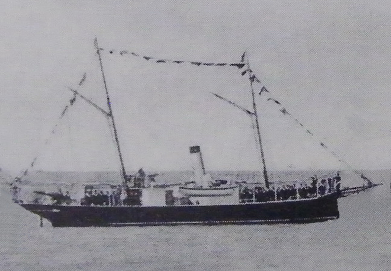 Romanian military gunboat "Grivita" in 1902